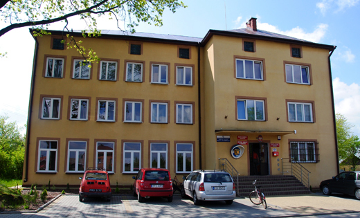 UG Adamowka